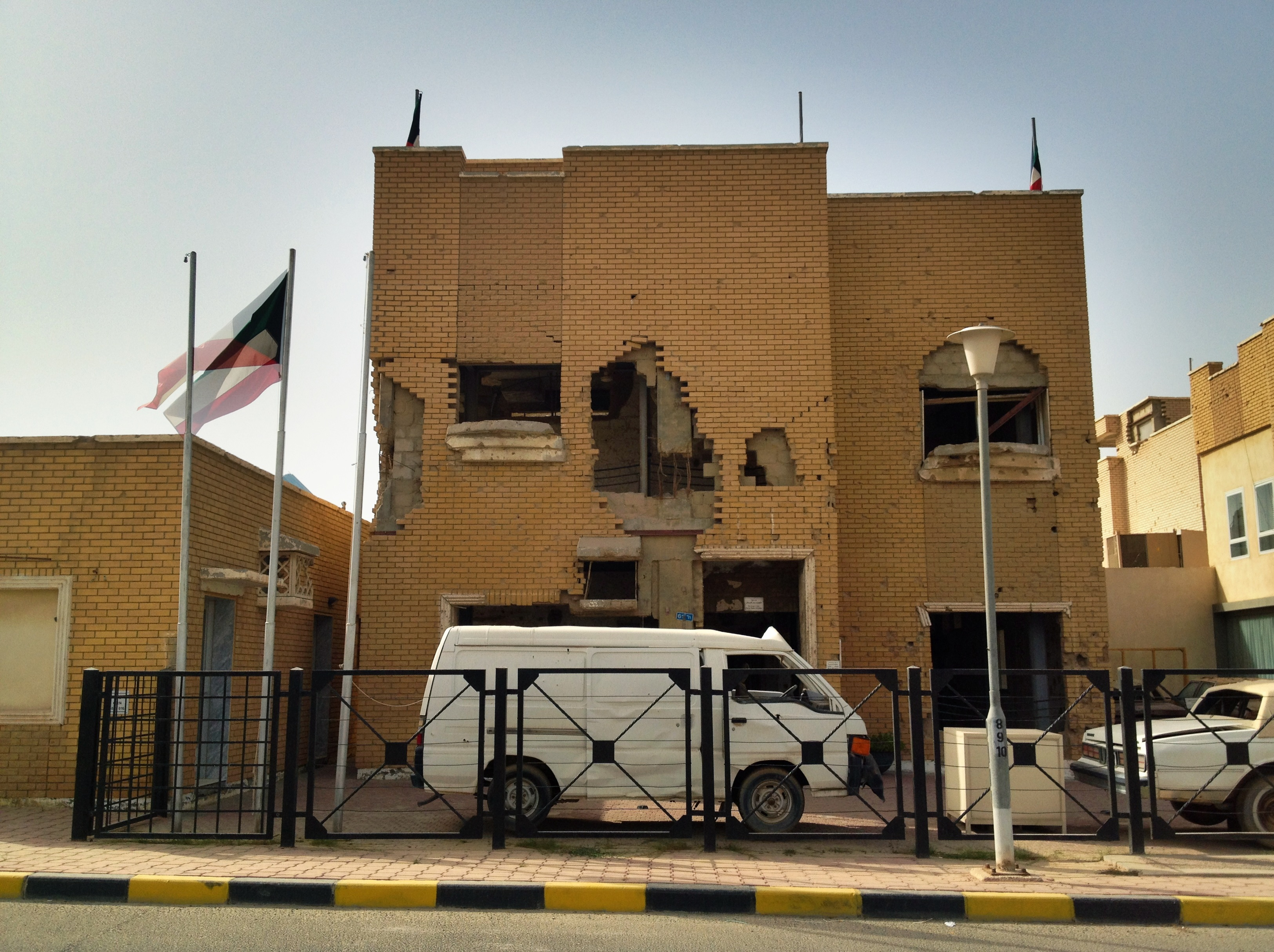 beit alqurain